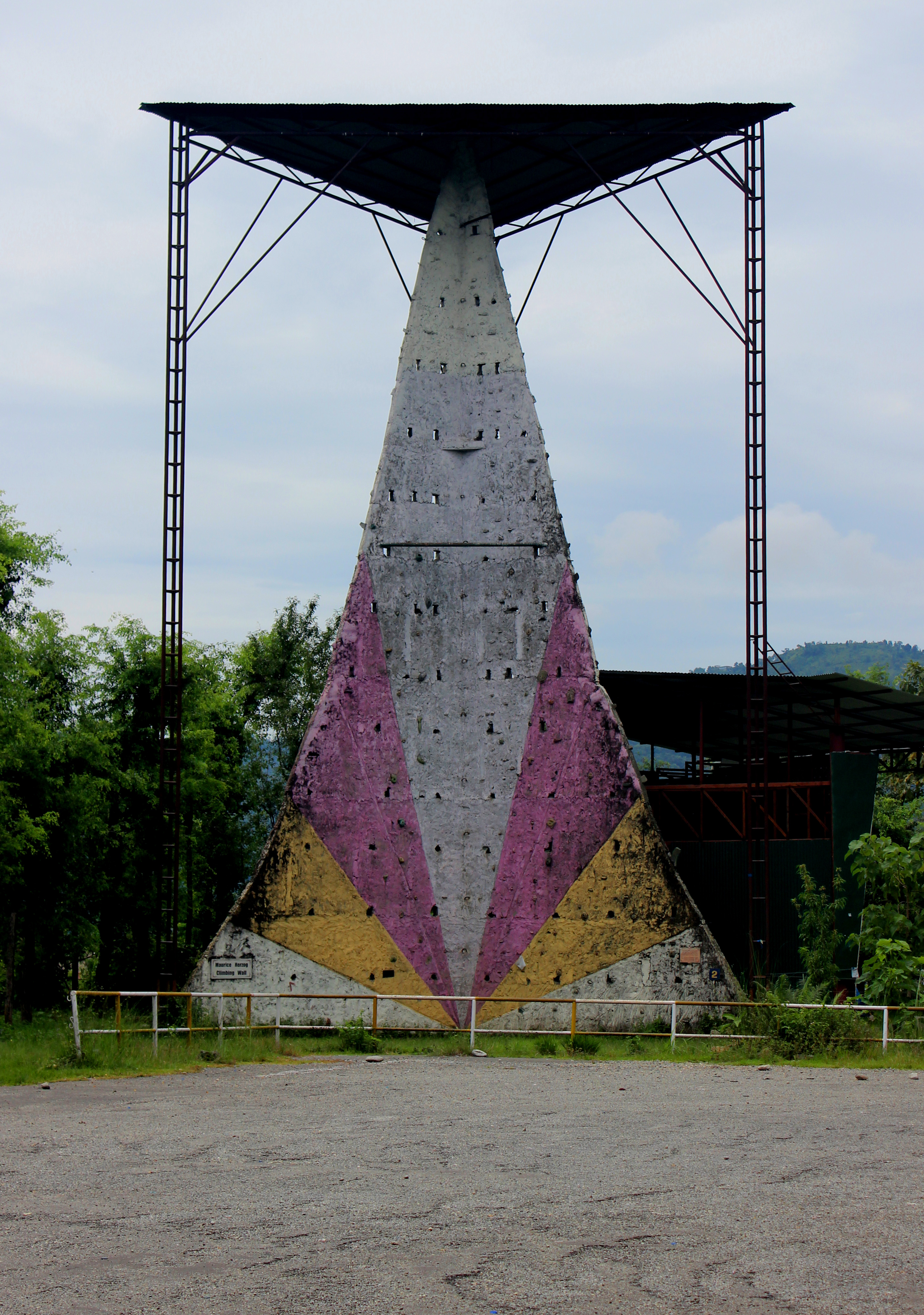 Maurice Herzog Climbing Wall located at the International Mountain Museum in Pokhara,Nepal.